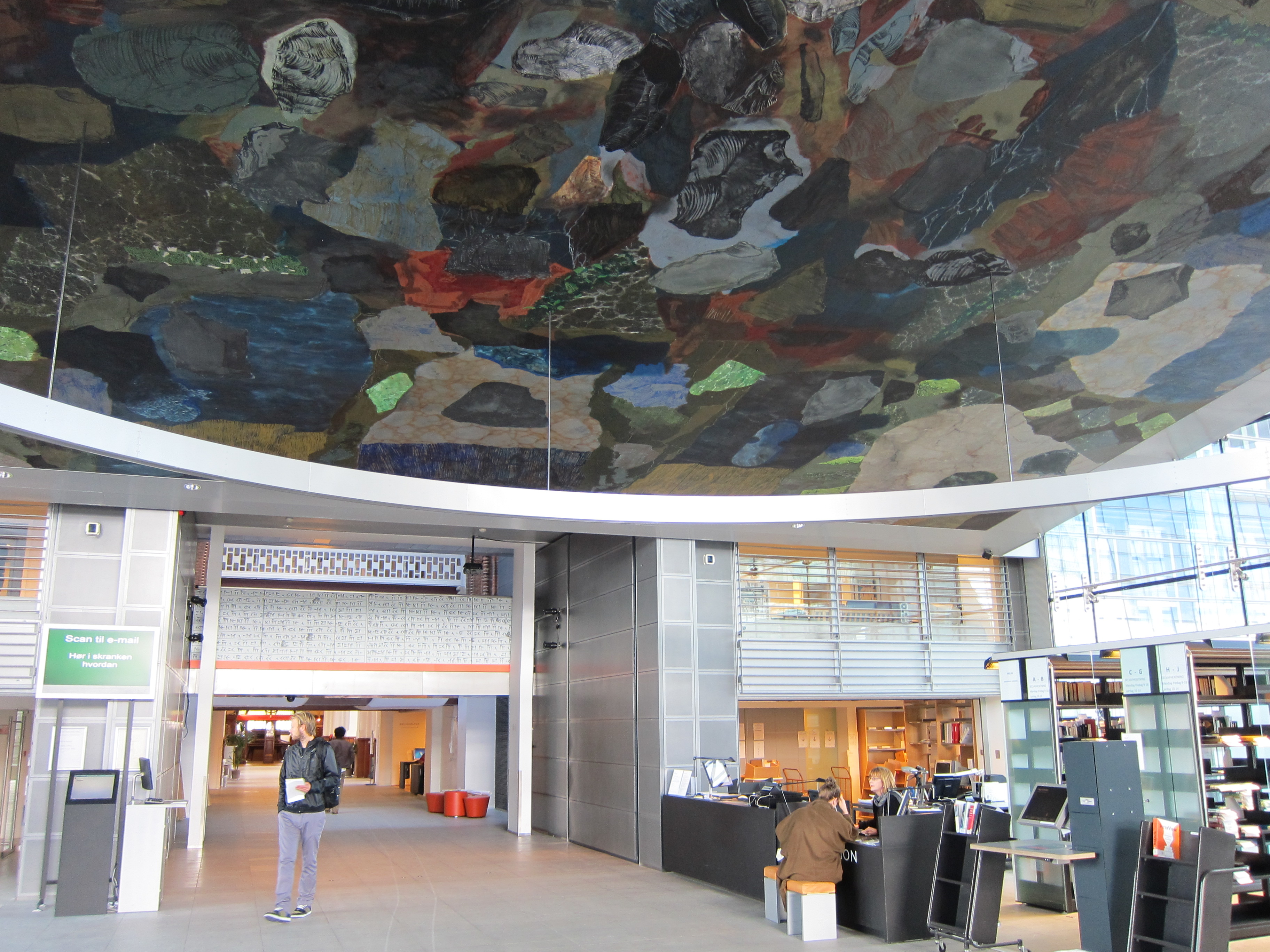 The Per Kirkeby fresco in the Black Diamond extension of the Royal Danish Library